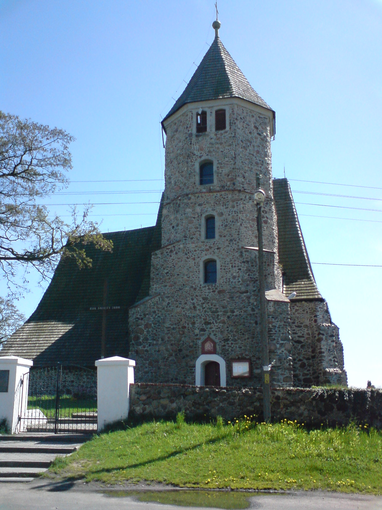 Holy Family church in Parszowice